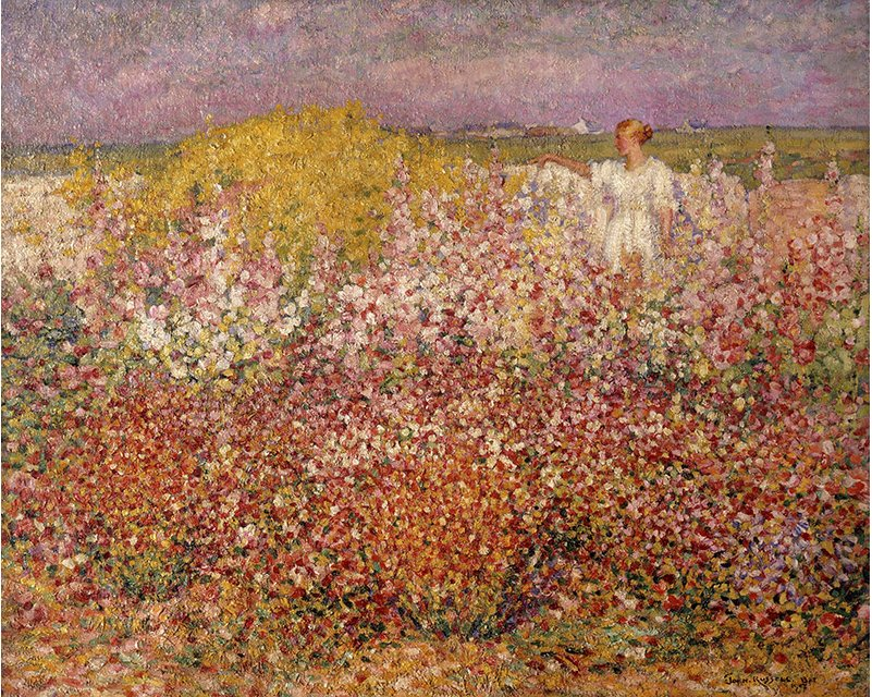 Mrs. Russell among the Flowers in the Garden of Goulphar, Belle-Île by John Peter Russell, 1907, oil on canvas, 79 x 100 cm., Musée d’Orsay